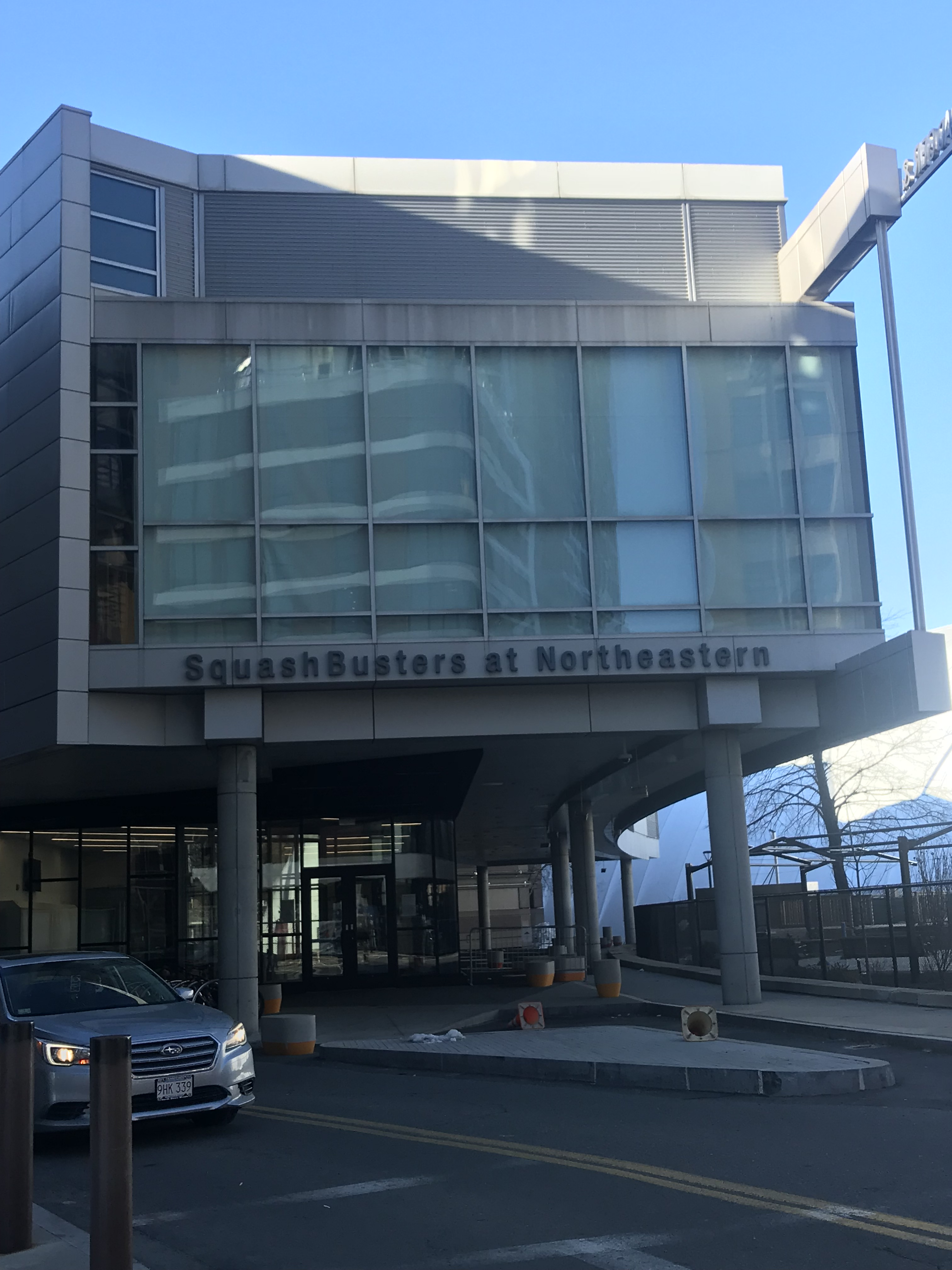 Badgers and Rosen Squashbusters Center on the Northeastern Campus